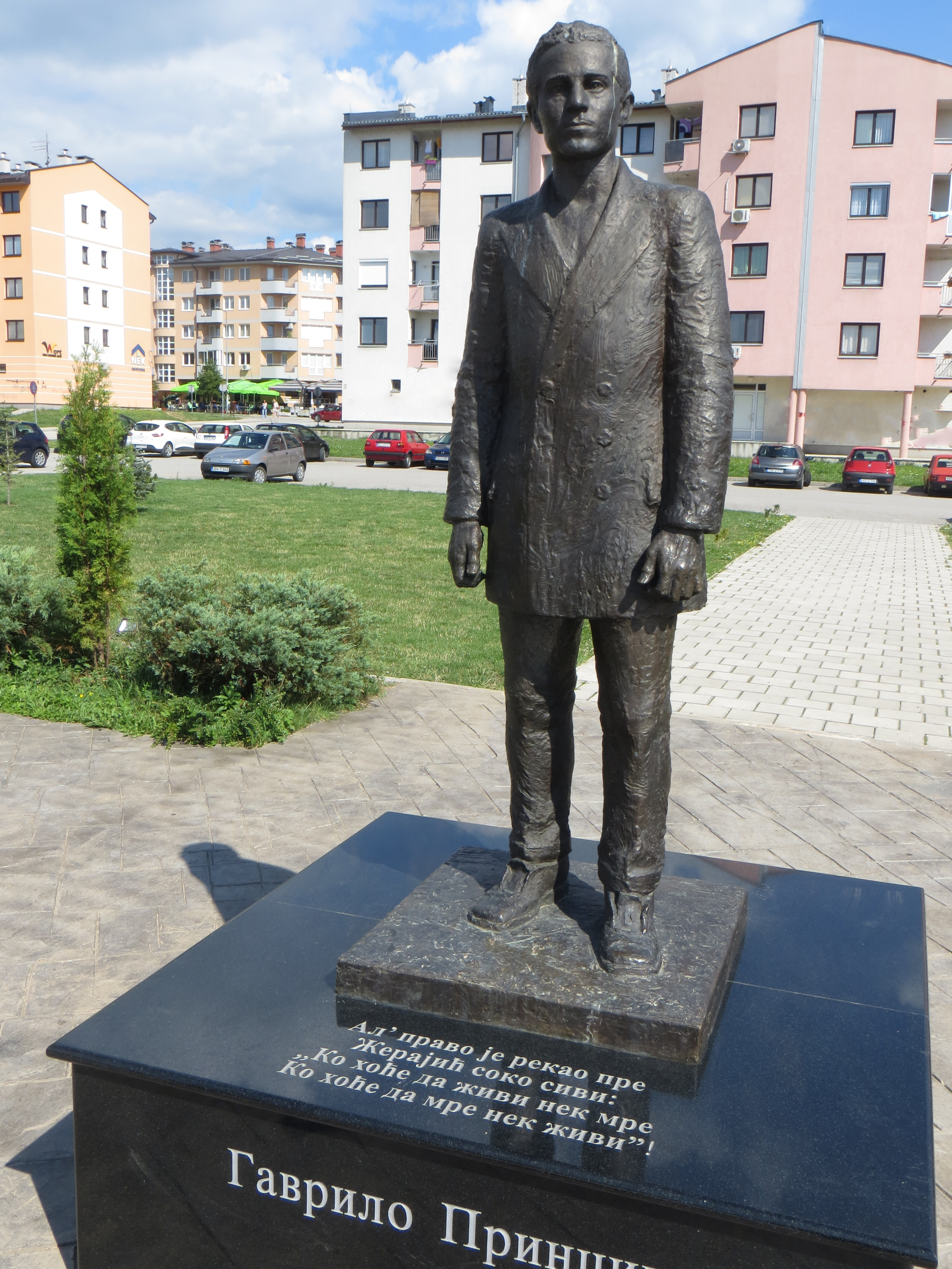 Monument to Gavrilo Princip, East Sarajevo